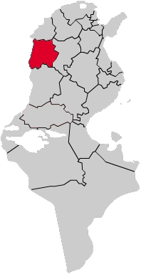 Map of Tunisia with highlighted Kef Governorate See also File:TN-11.svg